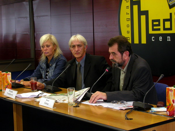 Dragan Vasiljković (middle) and Savo Štrbac (right)